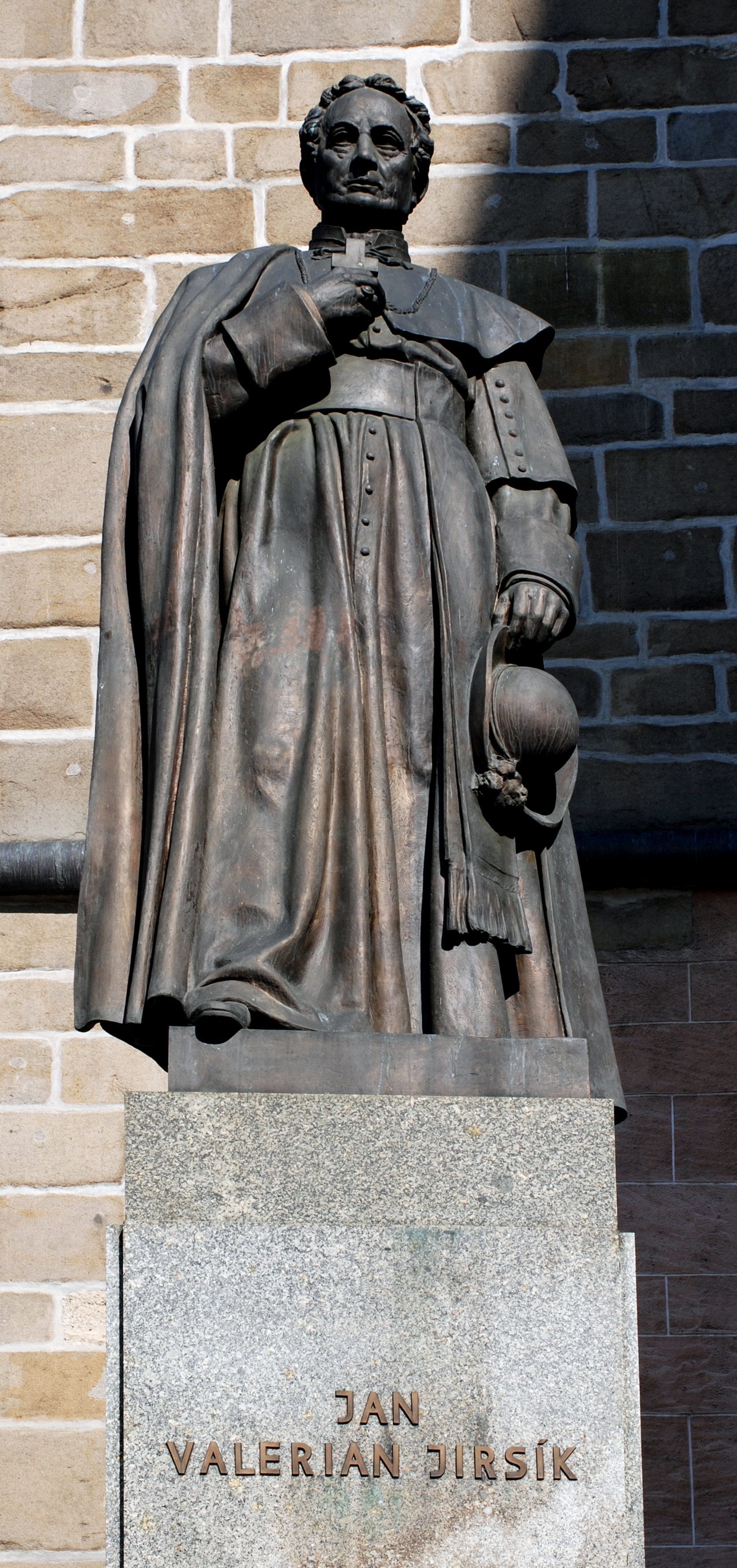 Statue of Jan Valerian Jirsík (4th bishop of České Budějovice) in České Budějovice. This statue is situated under Black Tower (Černá věž) near main square.